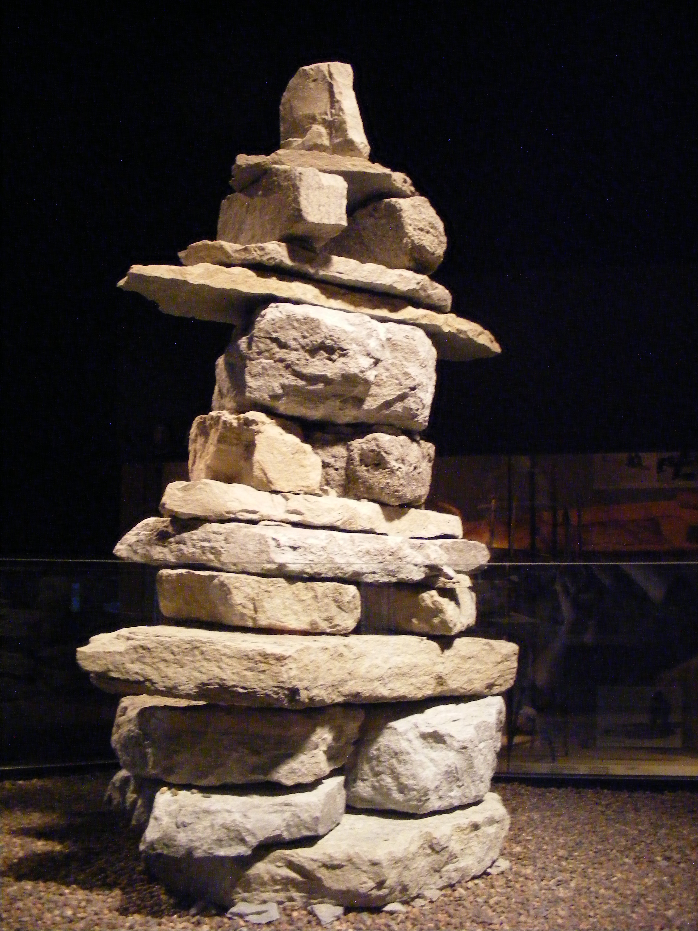 Inuksuk erected by Peter Irniq, The Ancient Americas (permanent exhibit), The Field Museum, Chicago